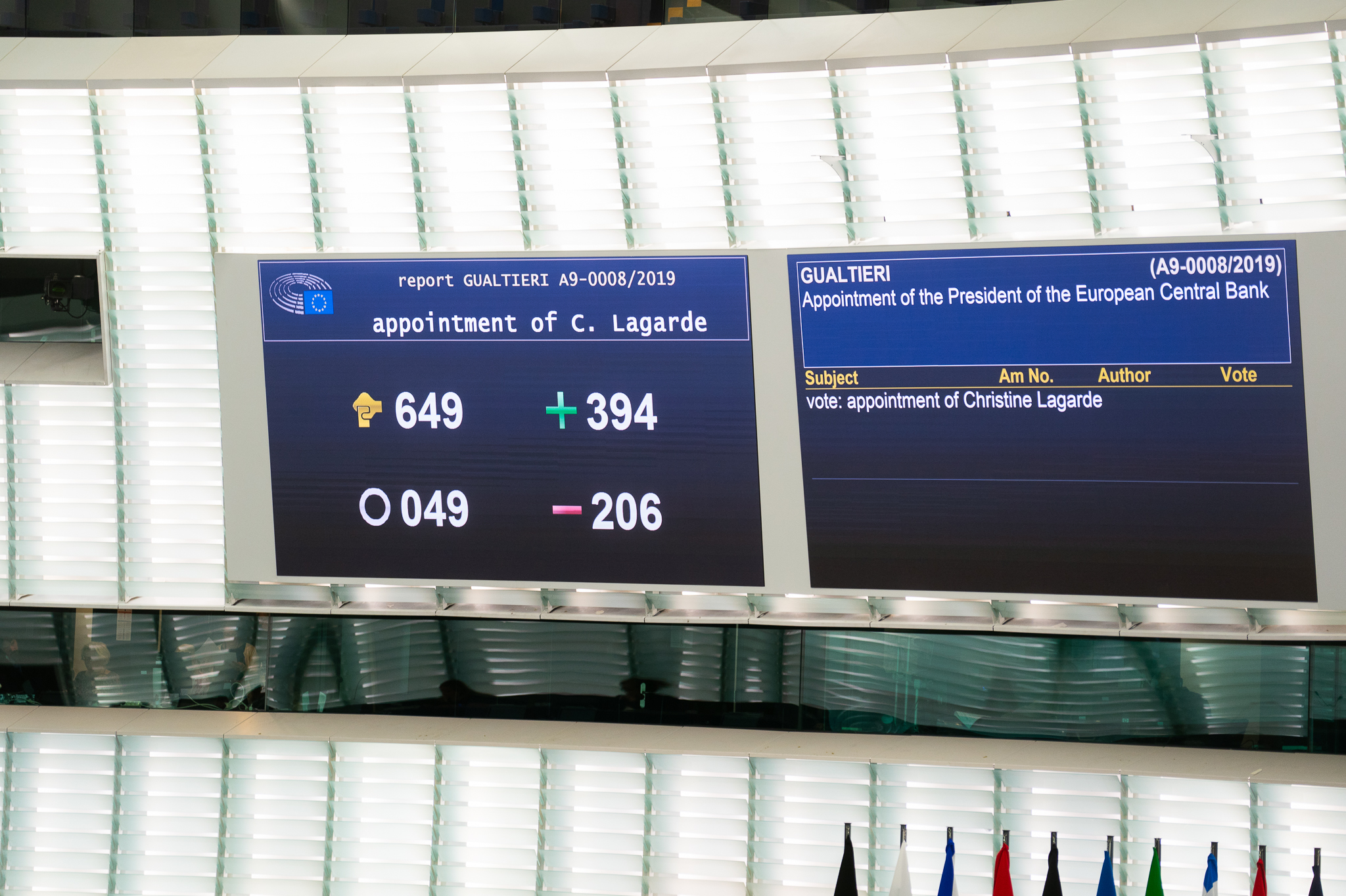 Read more: This photo is free to use under Creative Commons license CC-BY-4.0 and must be credited: "CC-BY-4.0: © European Union 2019 – Source: EP". No model release form if applicable. For bigger HR files please contact: webcom-flickr(AT)